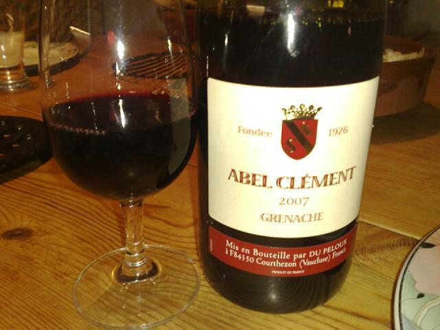 Bottle and glass of French Grenache wine